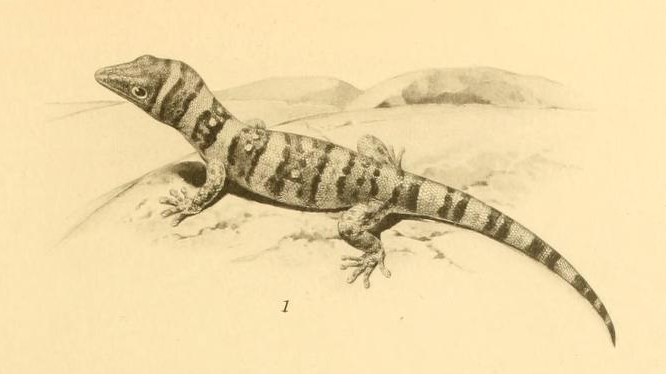 Illustration of Sphaerodactylus nigropunctatus decoratus specimen from Mangrove Cay, Andros Island, the Bahamas (identified as S. decoratus). Barbour, Thomas (1921). "Sphaerodactylus." Mem. Mus. Comp. Zool. 47:3, Pl. 1, Fig. 1.